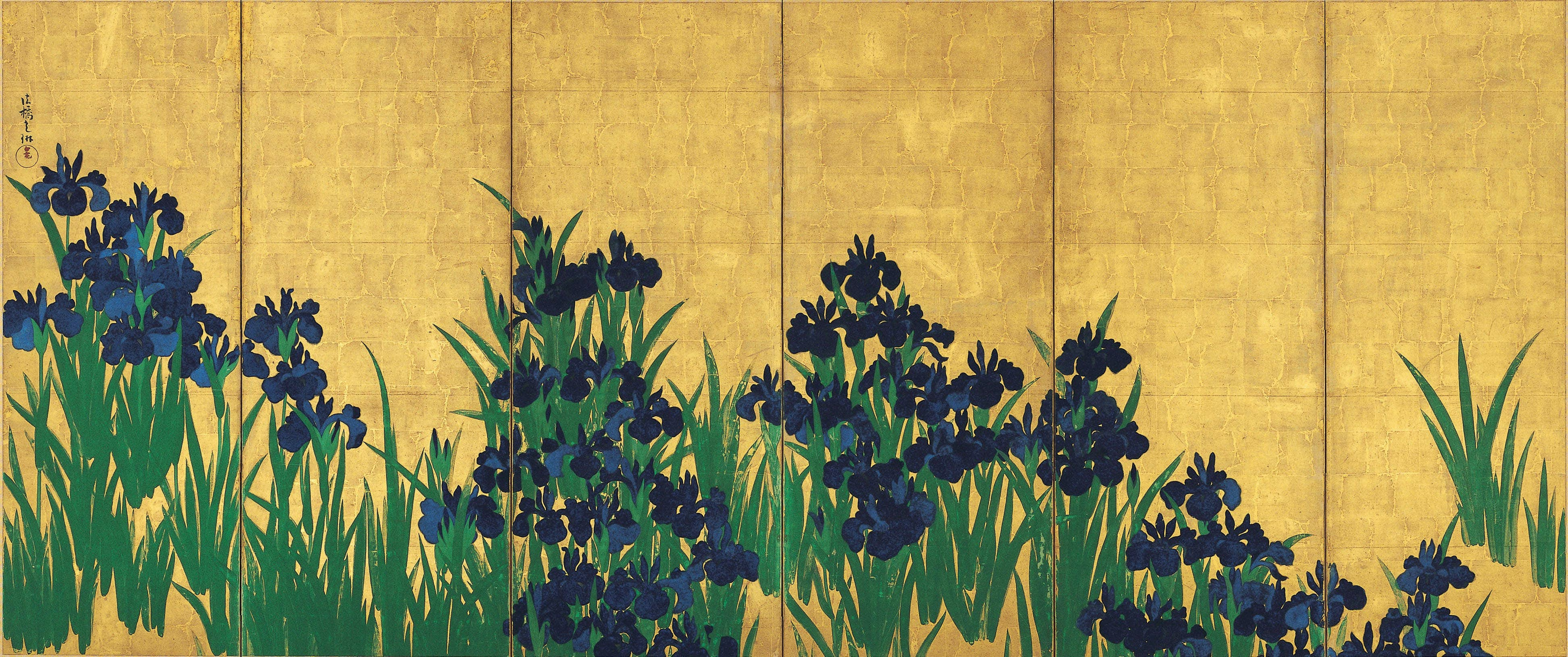 Ogata Korin: Irisis, left screen, 151x360 cm. Ink, color and gold on paper, begin. 18th-century. Nezu Art Museum.